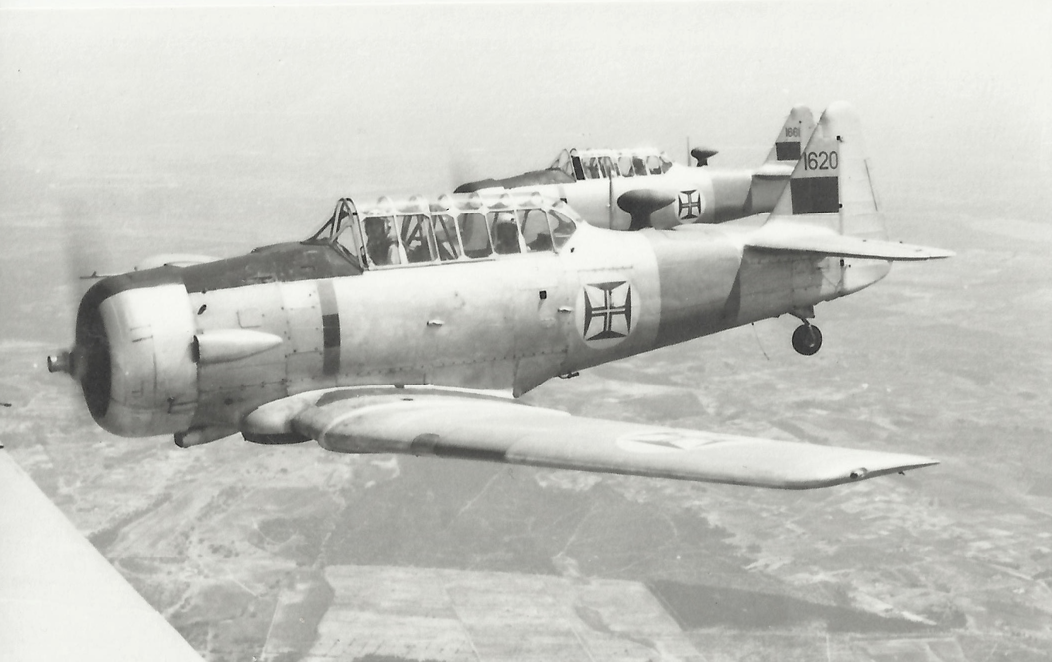 Portuguese Air Force. Pilot training with North American T-6 Texan airplanes. Beginning of the 1960s. Portugal.